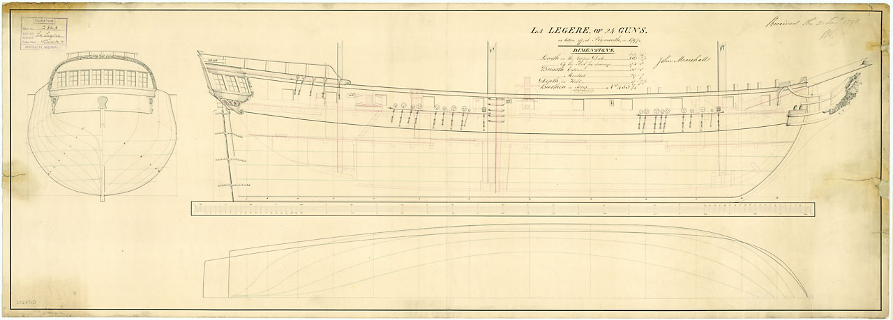 LEGERE FL.1796 [FRENCH] lines & profile